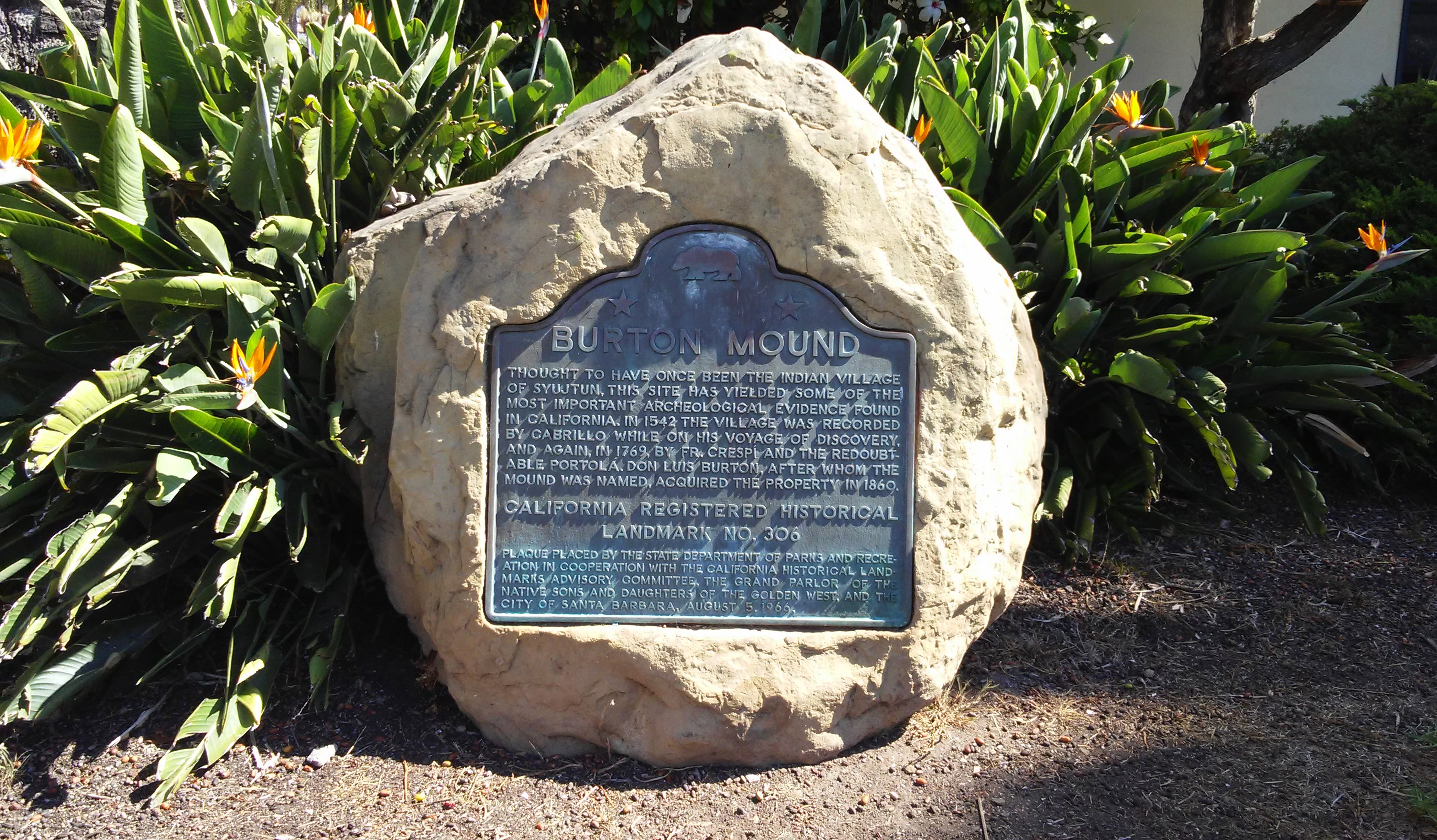 Burton Mound Landmark plaque in Ambassador Park, Santa Barbara, California (California Registered Historical Landmark No. 306), September 2017